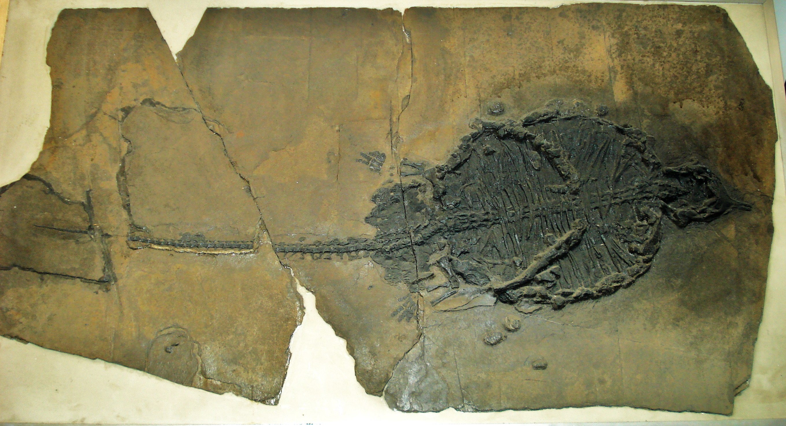 Fossil of Psephoderma alpinum, an extinct reptile